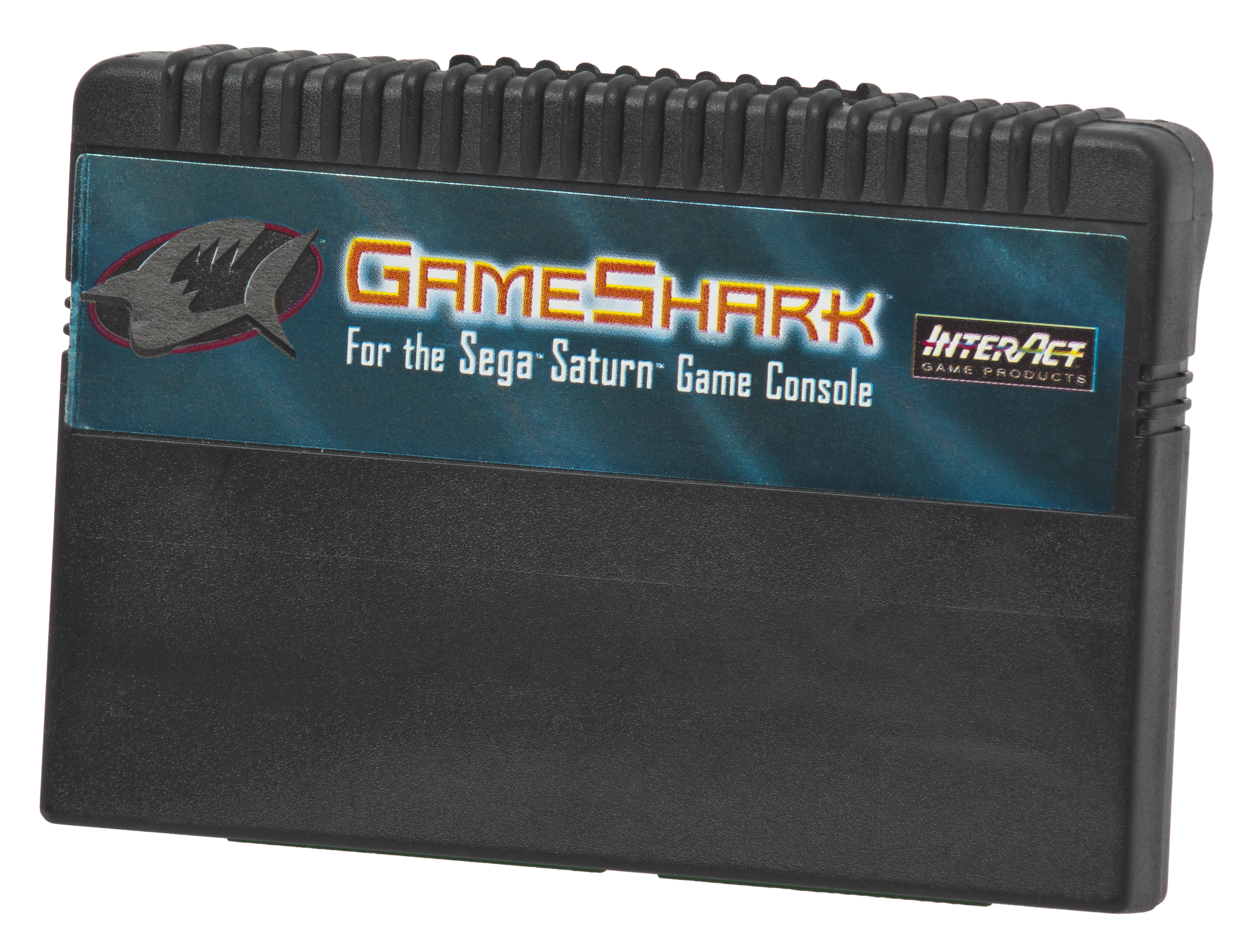 A GameShark cheat device for the Sega Saturn video game console.